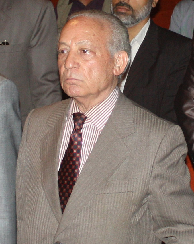 Abdorrafi Haghighat, Iranian Historian